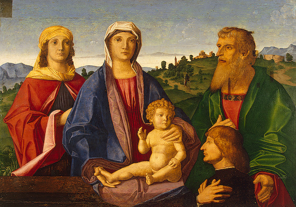 Madonna and Child with Saints and the Donator (Sacred Conversation) Catena, Vincenzo (Vincenzo di Biagio). Oil on canvas. 74x109 cm Italy. 1504 Source of Entry: Collection of Prince L. Ya. Lobanov-Rostovsky, St Petersburg. 1897